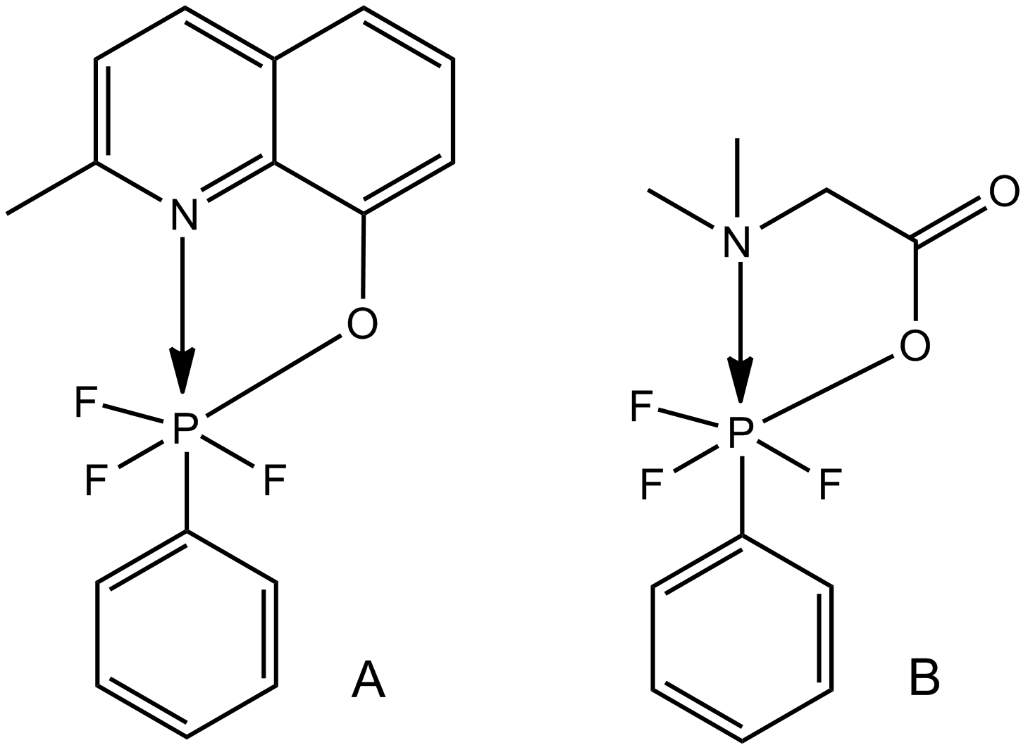 hexacoordinated phosphorous compounds adapted from Gillespie, R. J. and B. Silvi. The Octet Rule and Hypervalence: Two Misundersood Concepts. Coordination Chemistry Reviews. 2002, 53: 62, 233-234.